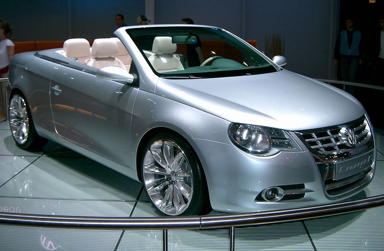 Taken by myself at the 2004 Motorshow